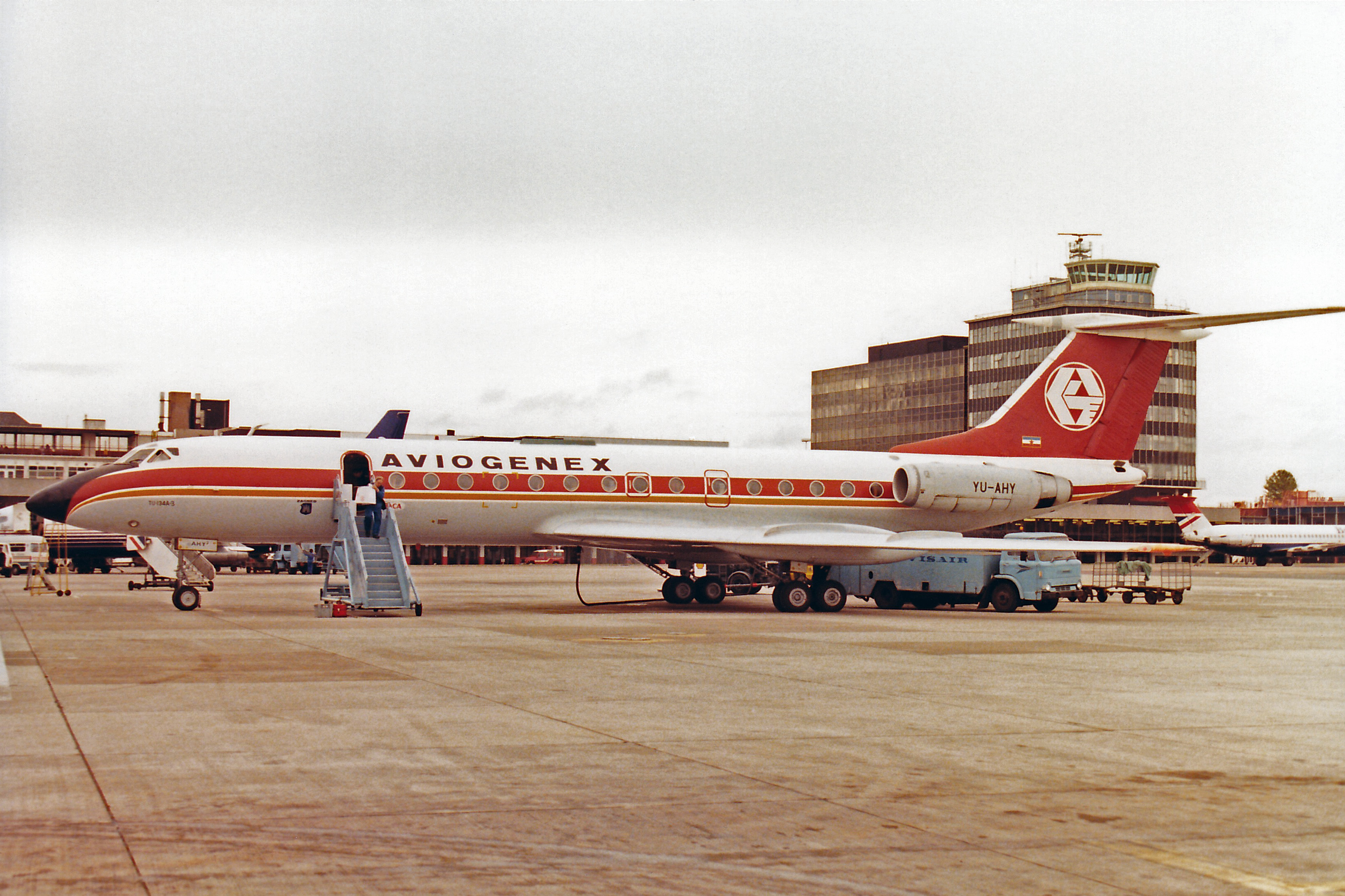 Replacing an earlier scanned print with a better version.